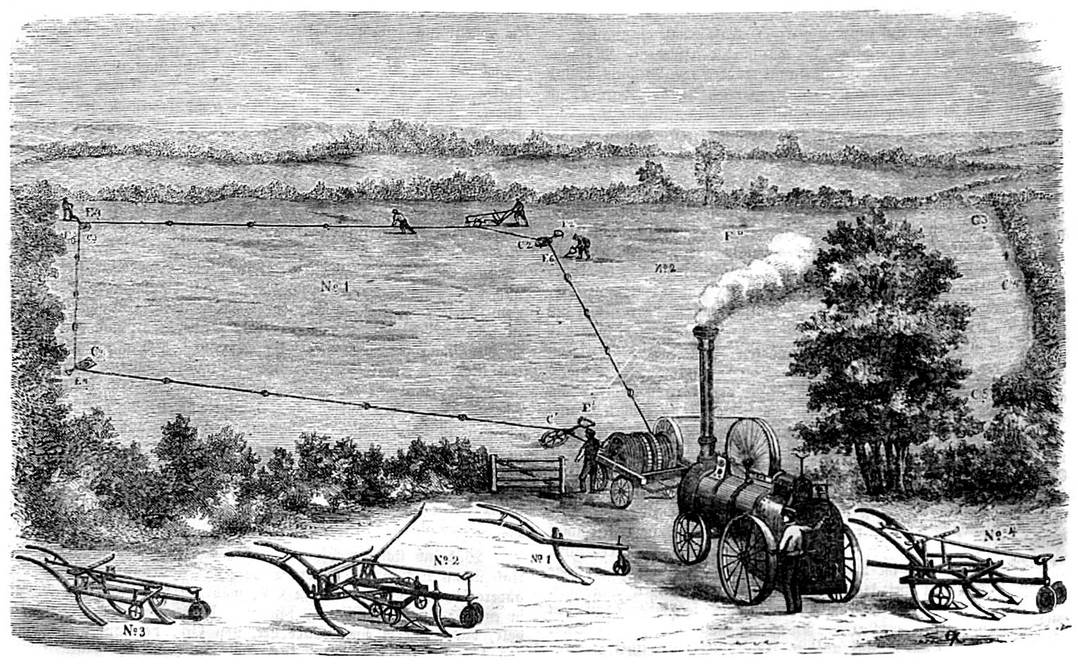 no caption